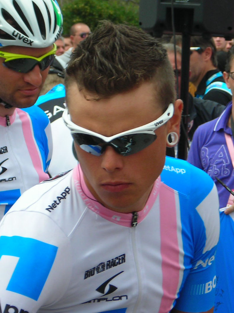 Daniel Schorn in Savona, start of the 13th stage of 2012 Giro d'Italia